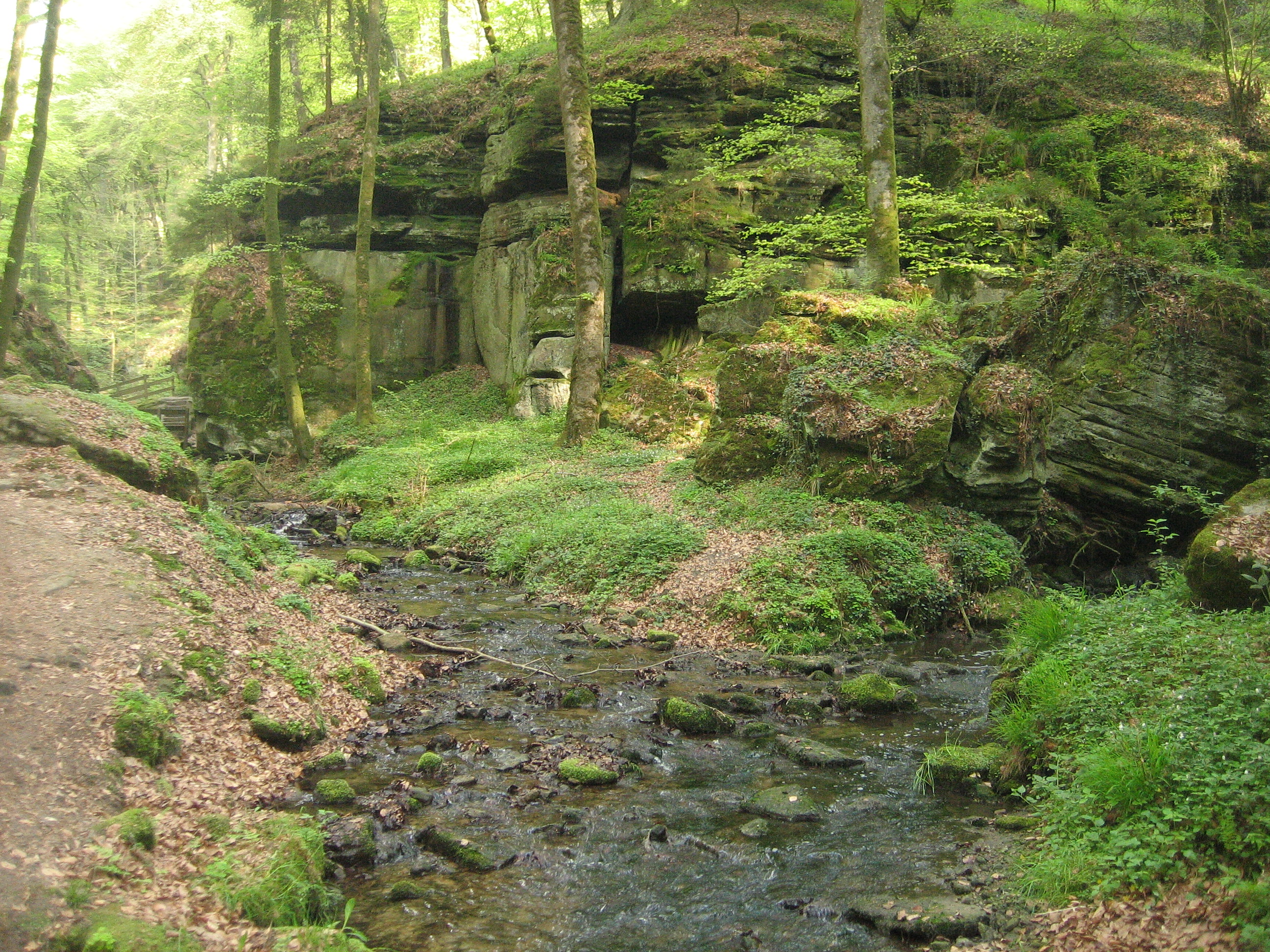 Valleys of Halerbaach and Haupeschbaach (right), sandstone rocks, near Beaufort, Luxembourg. Classified National Monument 26 March 1938.